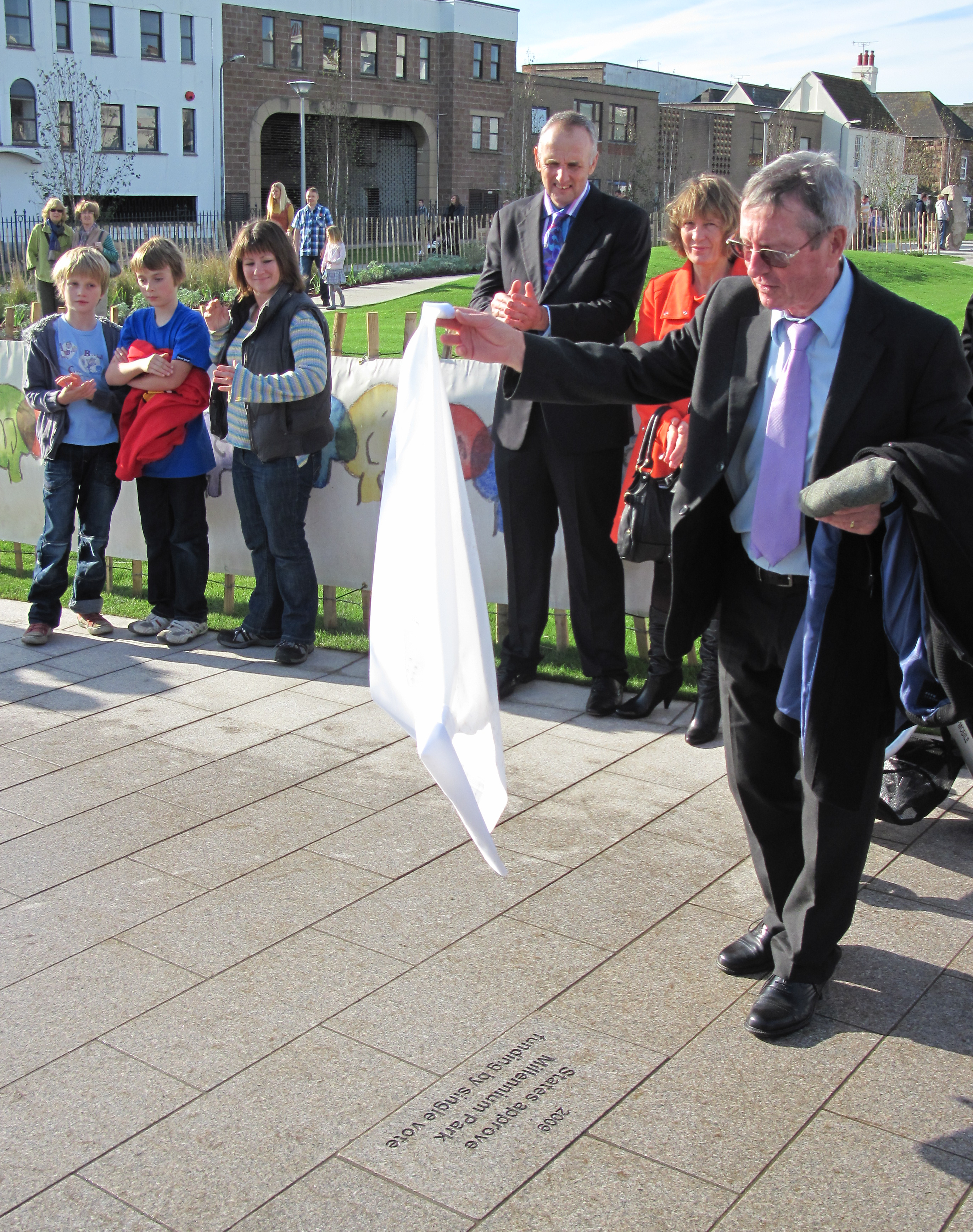 Opening of the Millennium Town Park, Saint Helier, Jersey, October 2011